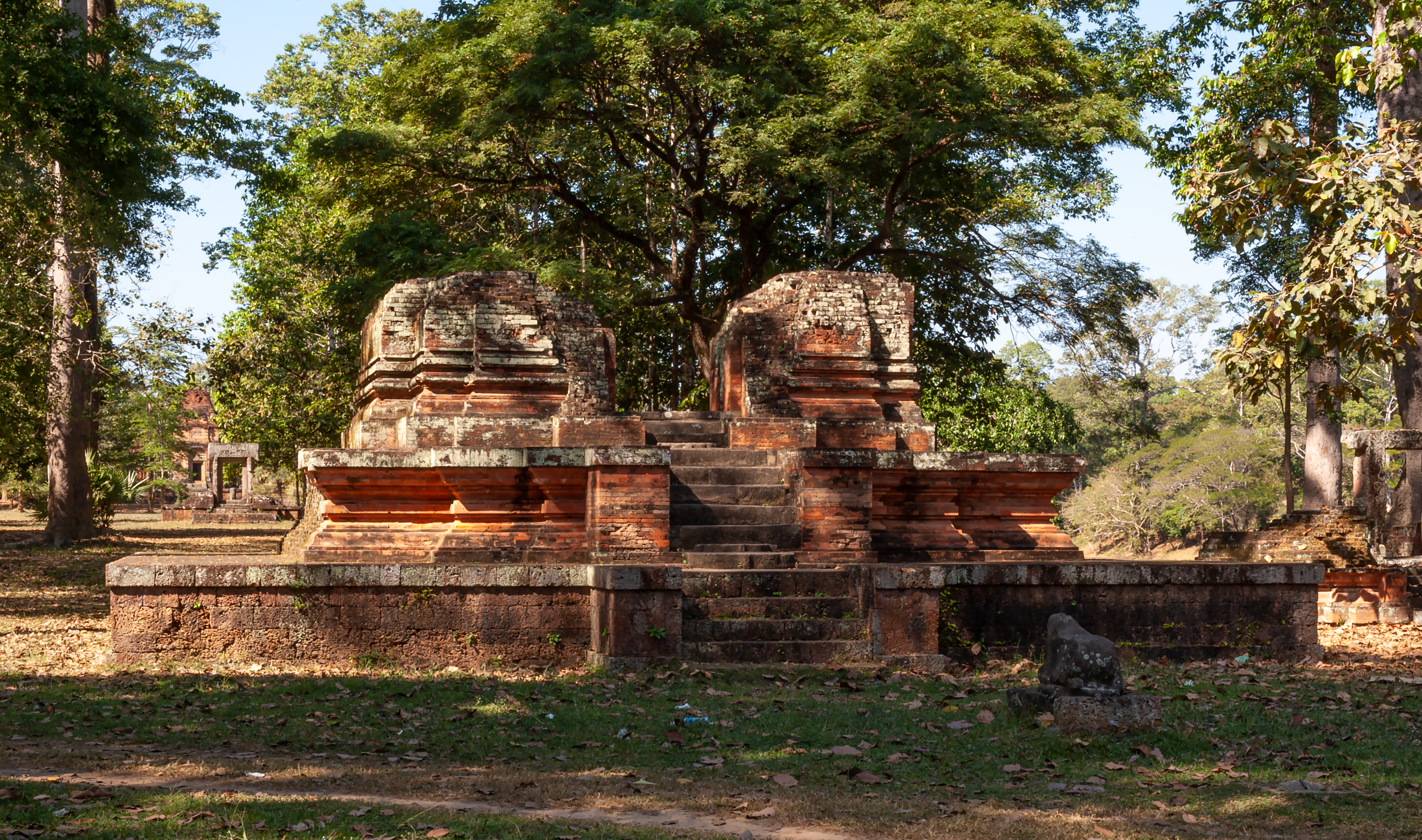 Terrace of the temple of Thma Bay Kaek, Angkor, Cambodia ភាសាខ្មែរ: ប្រាសាទ​ថ្មបាយក្អែក